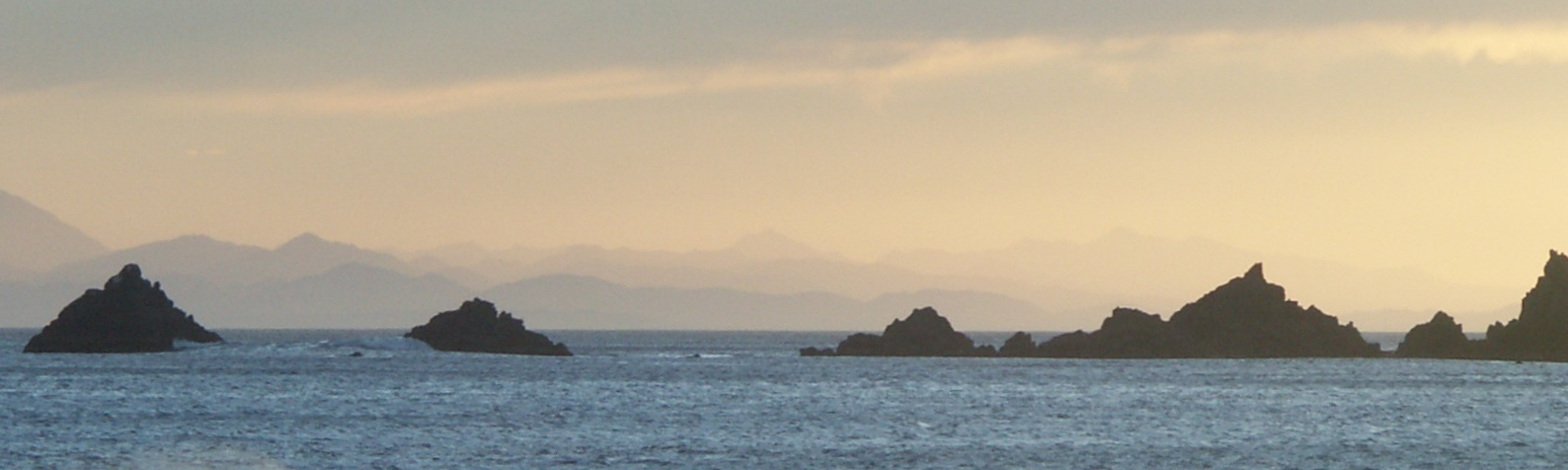 SouthCoastPICT1197.JPG - photo taken and uploaded by Paul Moss, Photographer, Artist, Paul Moss Photographer Artist NZ